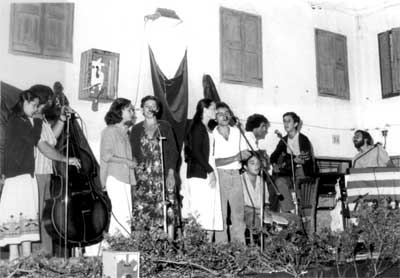 Traginada